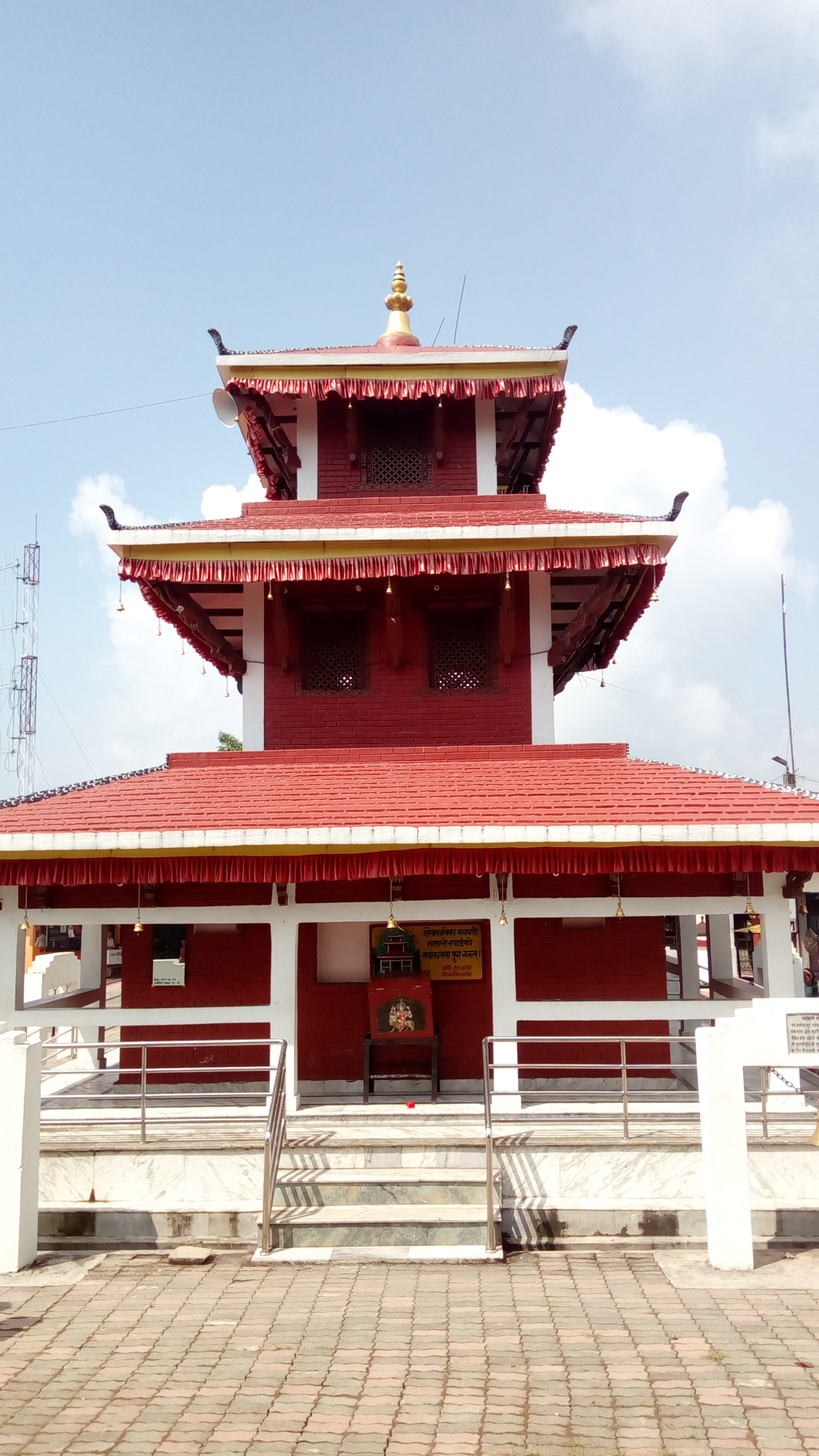 १,८४१ फिट उचाइमा रहेको मौलाकालीका (डाँडा कालिका) मन्दिरको पछाडिको दृश्य